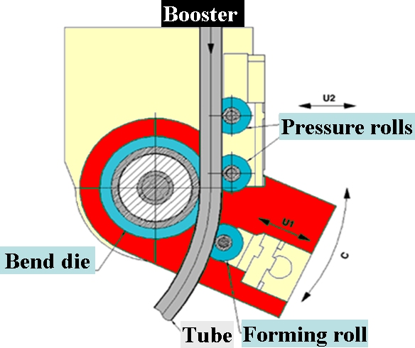 Complete tooling for the three roll push bending process